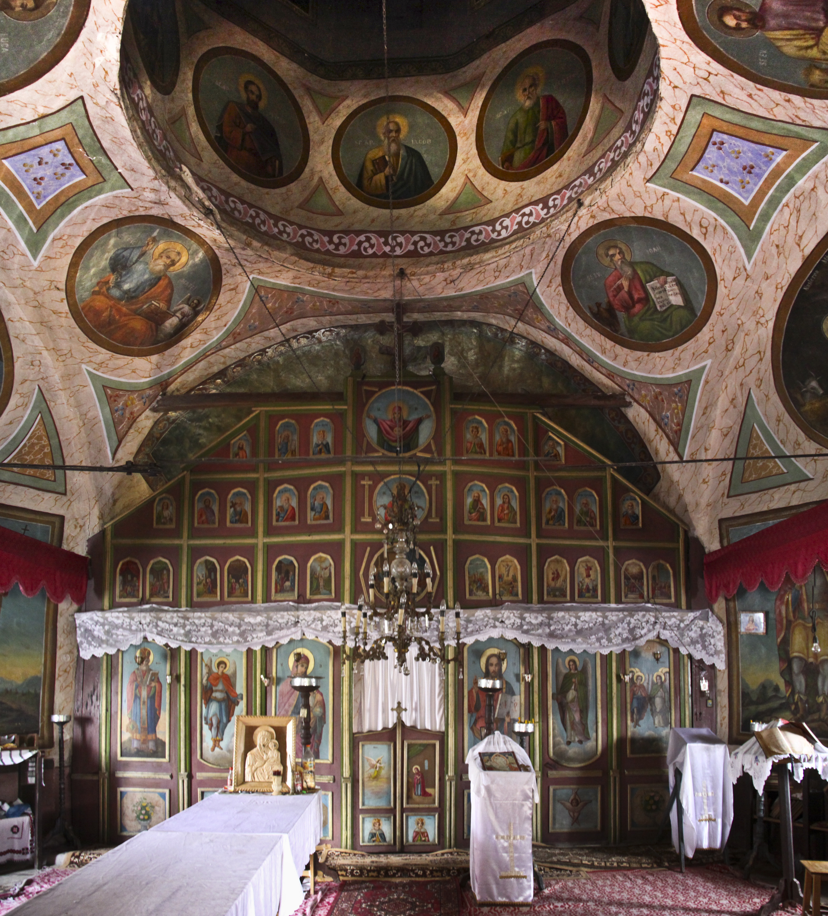 Olteanca-Marineşti, Vâlcea county, Romania: the wooden church.